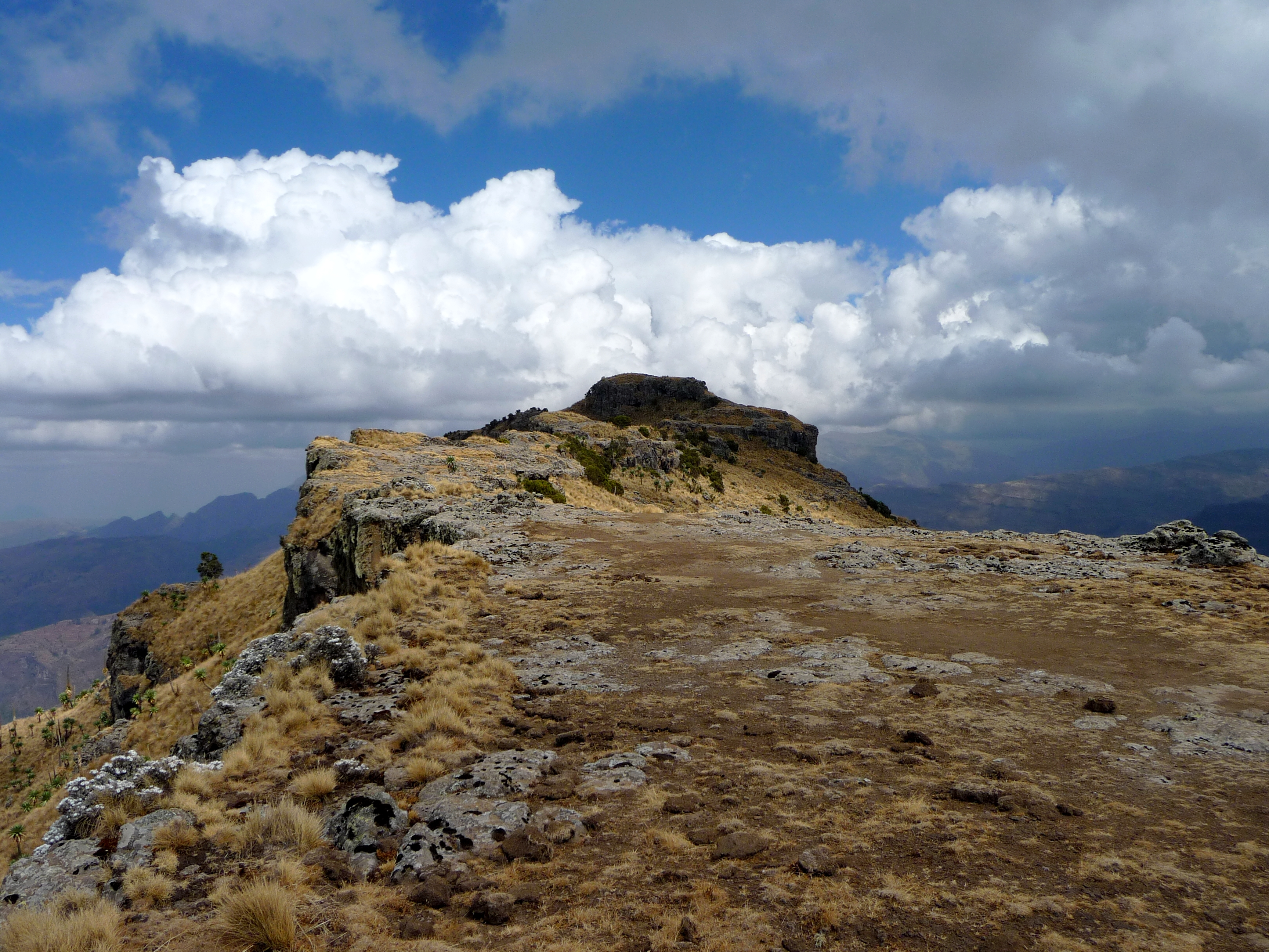 Top of Imet Gogo in the Simien Mountains (Amhara Region, Ethiopia).